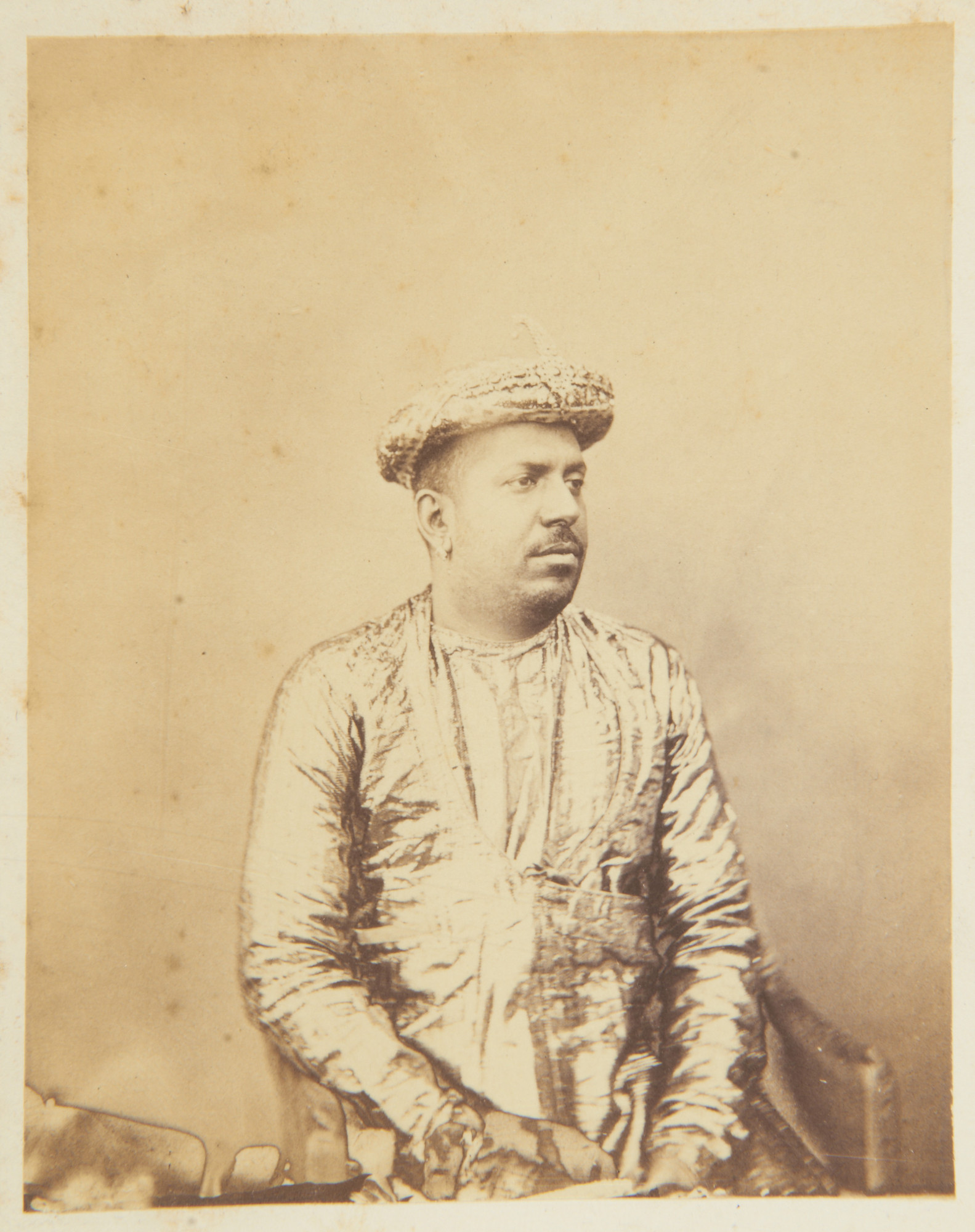 Photograph of a half length portrait of Ayilyam Thirunal Rama Varma, Rajah of Cochin, seated. He wears a shiny tunic and hat. He faces three-quarters right.